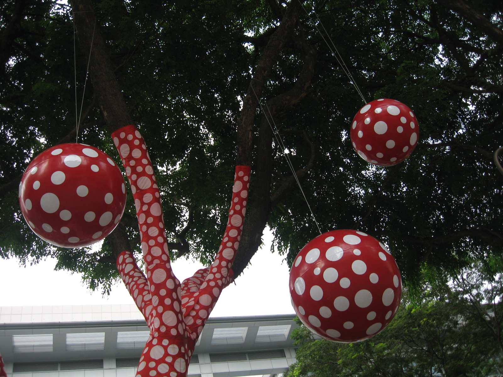 Yayoi Kusama - Ascension of Polkadots on the Trees, during the Singapore Biennale 2006.